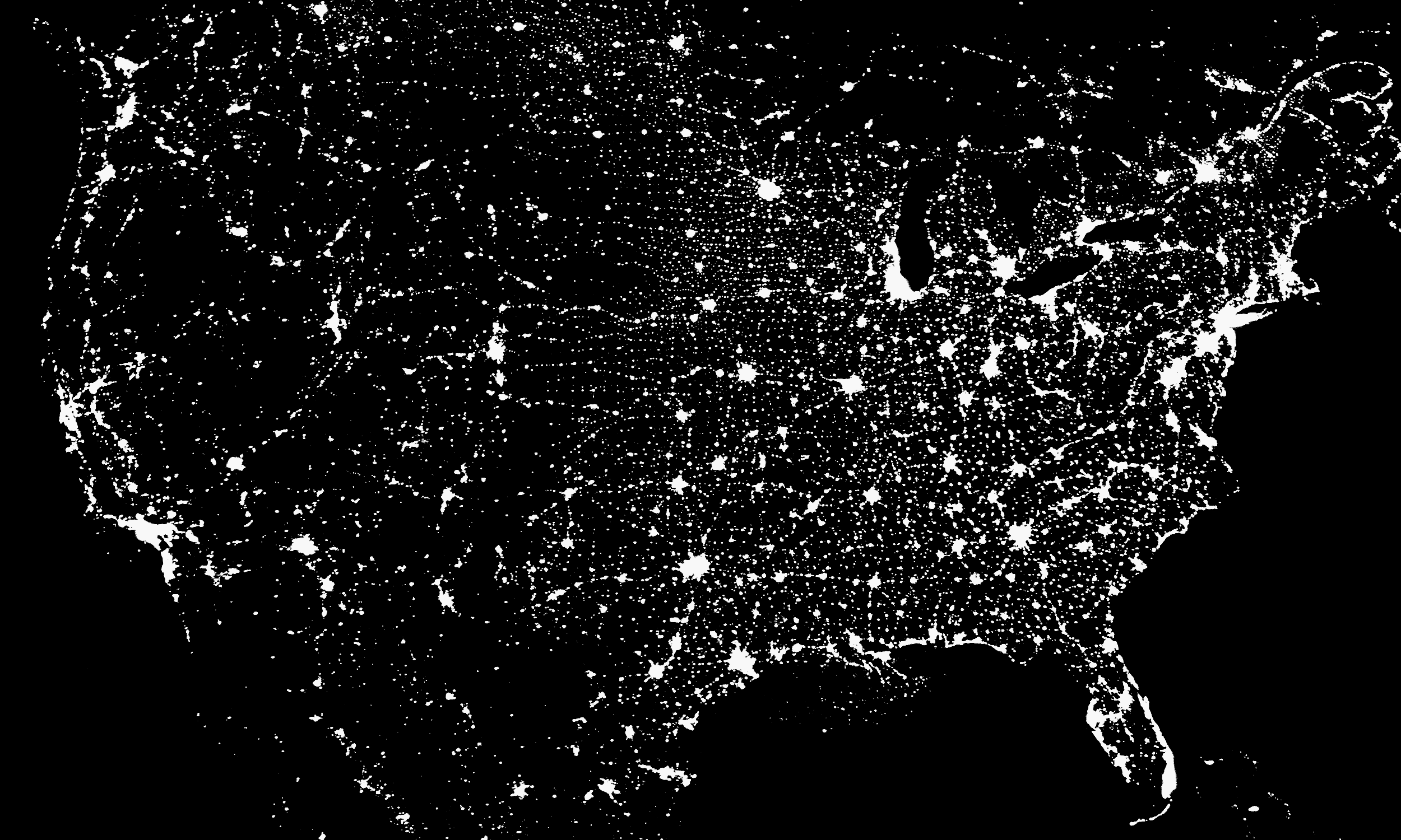 A satellite view of the contiguous United States at night, showing the density of artificial lights.